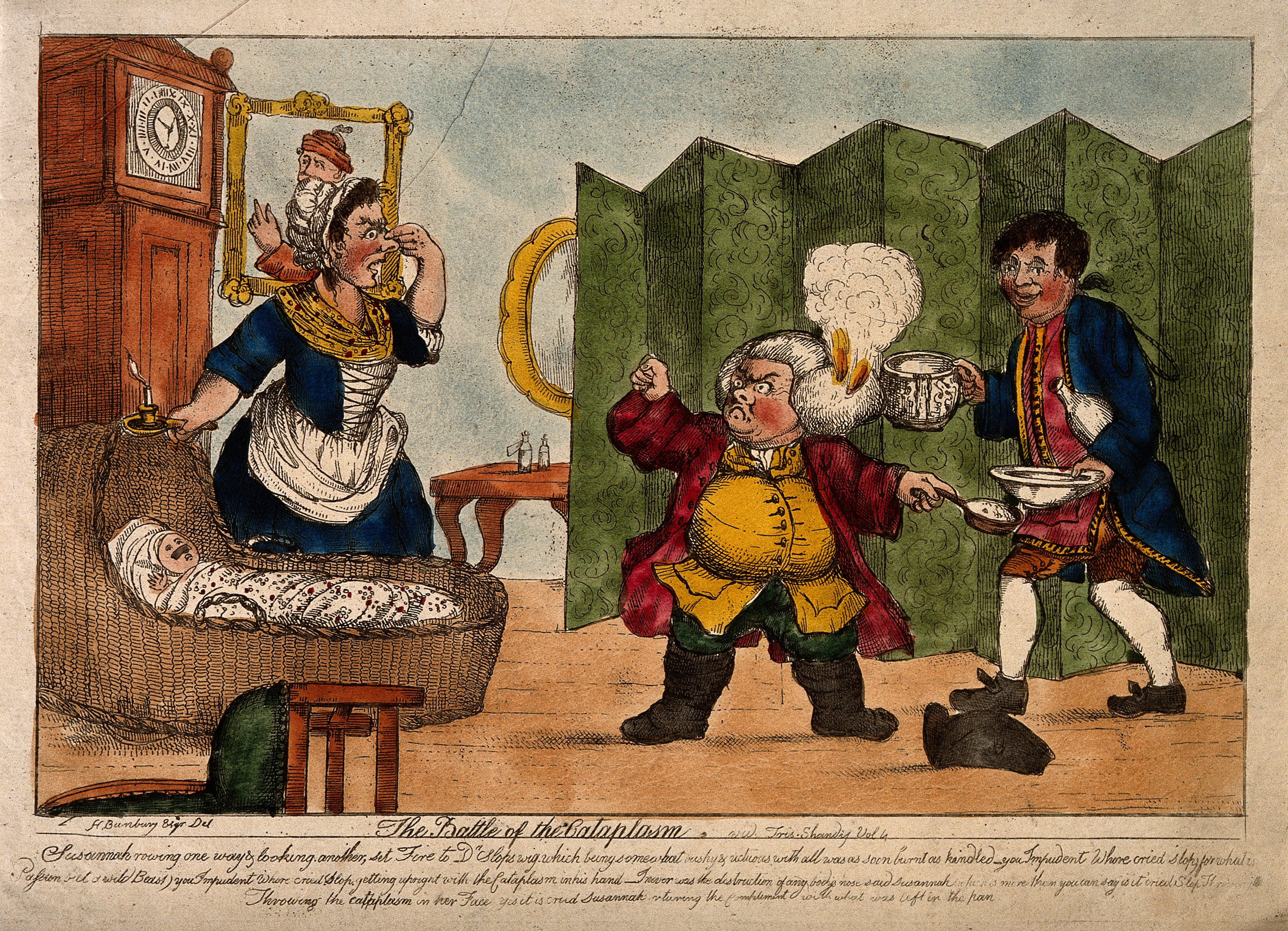 Dr. Slop, with his wig on fire, angrily gesticulating to Susannah who holds her nose near the wounded baby Tristram Shandy. Coloured etching after H.W. Bunbury after L. Sterne. Iconographic Collections Keywords: doctor slop; Doctor Slop; sterne, laurence 1713-1768; Susannah; Tristram Shandy; bunbury, henry william; tristam shandy; Laurence Sterne; Henry William Bunbury